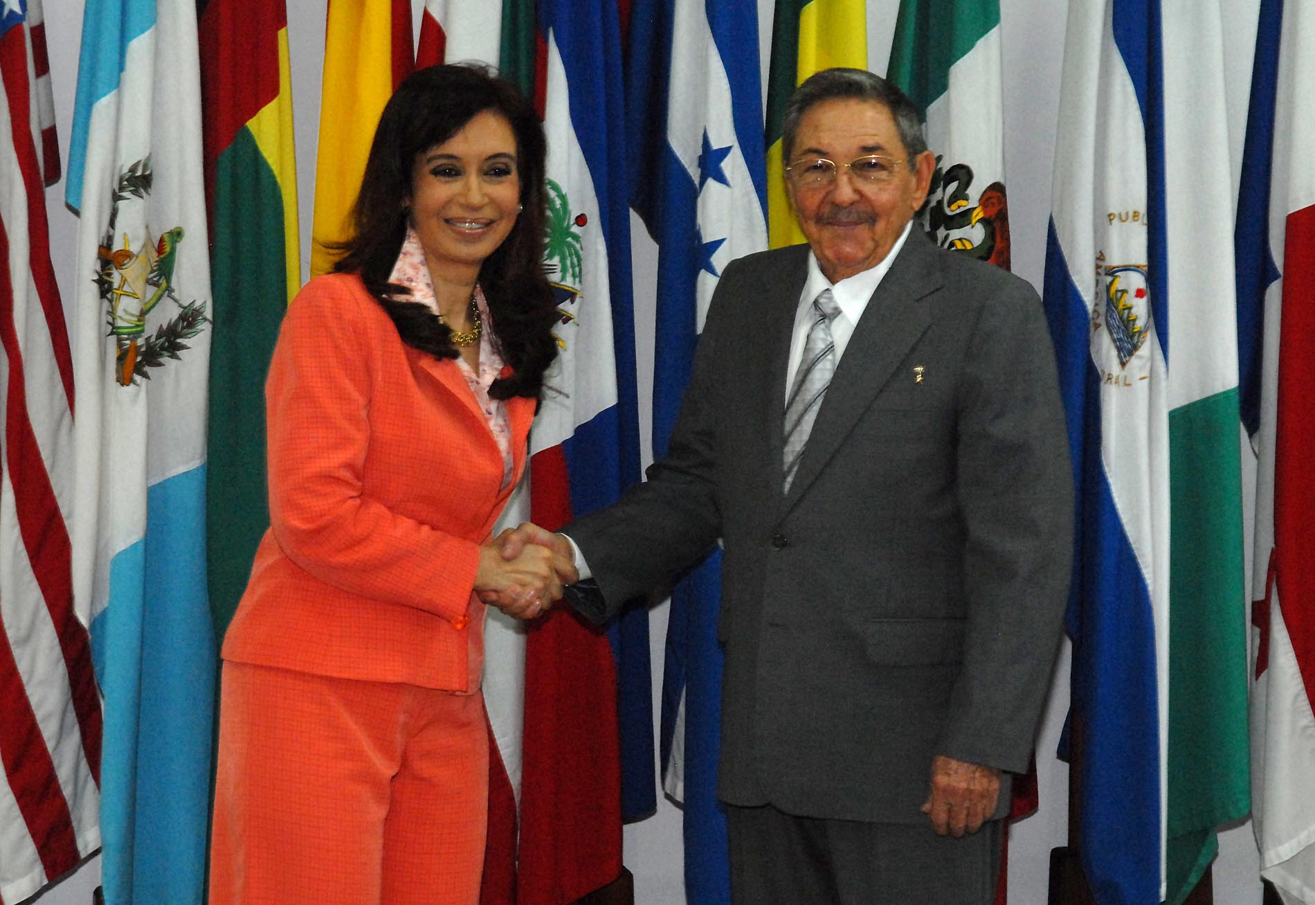 Cristina Fernández meets Raúl Castro in Cuba during a state visit in January 2009.